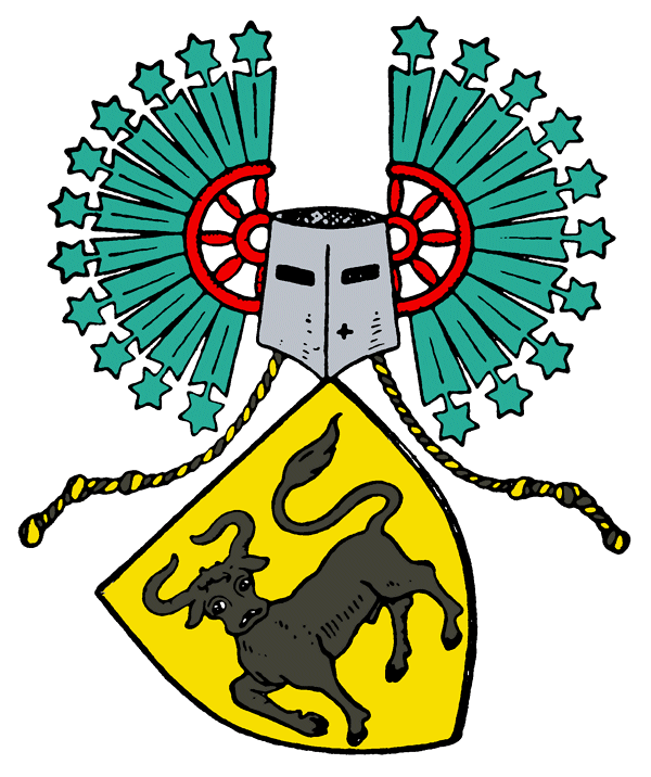 Coat of arms of the Plessen family